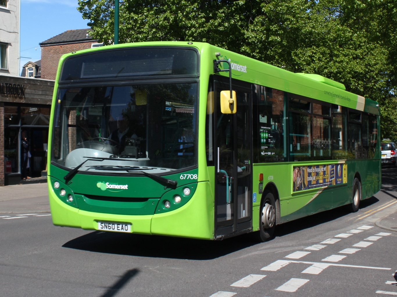 The Buses of Somerset's 67708 (an Enviro300 registered SN60EAO) makes its way up The Avenue in Minehead at the start of another trip on route 28 to Taunton.